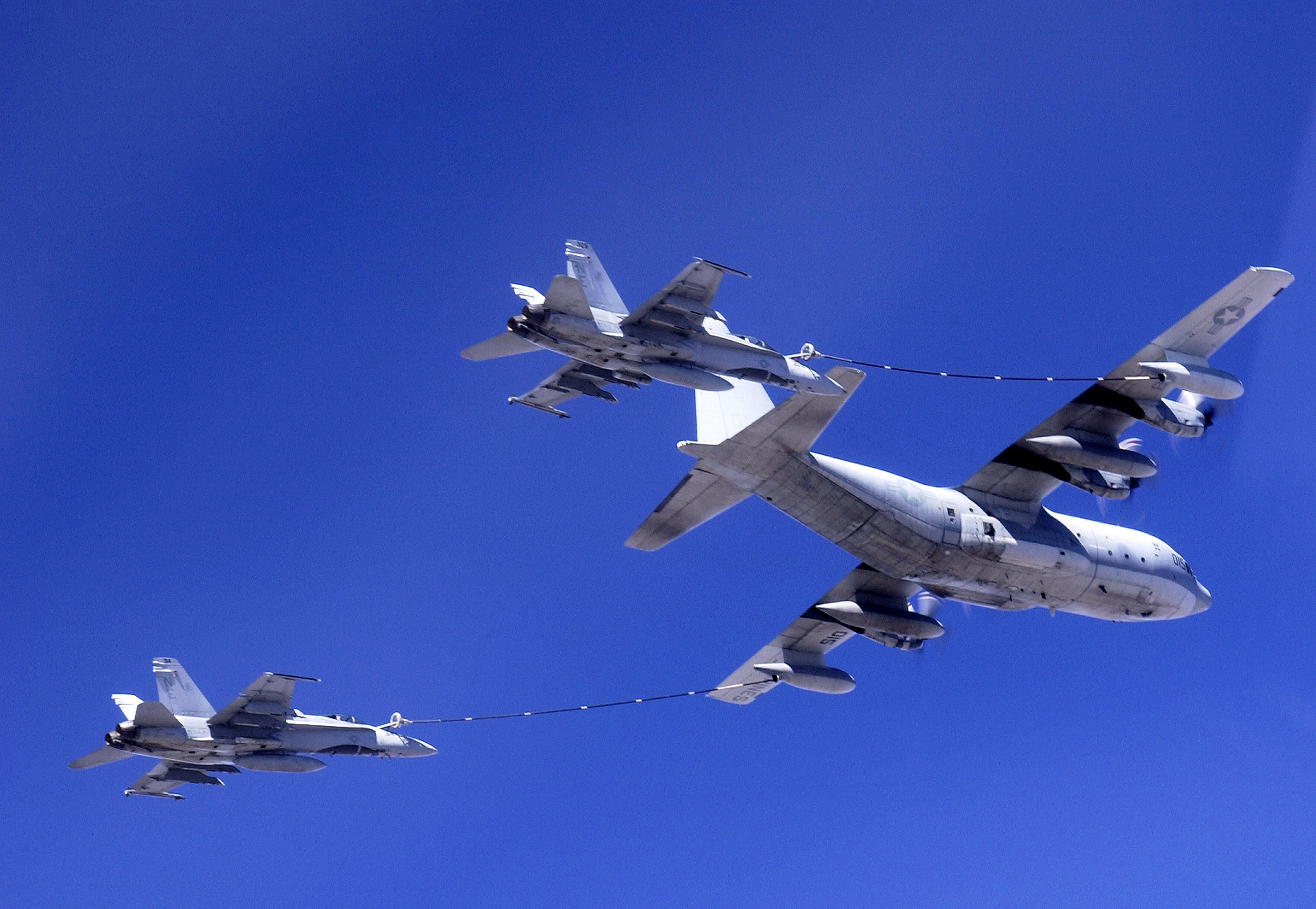 Oregon (Aug. 11, 2005) – Two U.S. Navy F/A-18C Hornets assigned Strike Fighter Squadron One Five One (VFA-151) conducts aerial refueling with an USMC KC-130 over Oregon during exercise Sentry Eagle 2005. Sentry Eagle is a biannual, two-day exercise that emphasizes tactics for defending friendly airspace and assets from a variety of adversaries as well as exposing participants to multi-service military forces. U.S. Air Force photo by Tech. Sgt. Jerry Morrison (RELEASED)